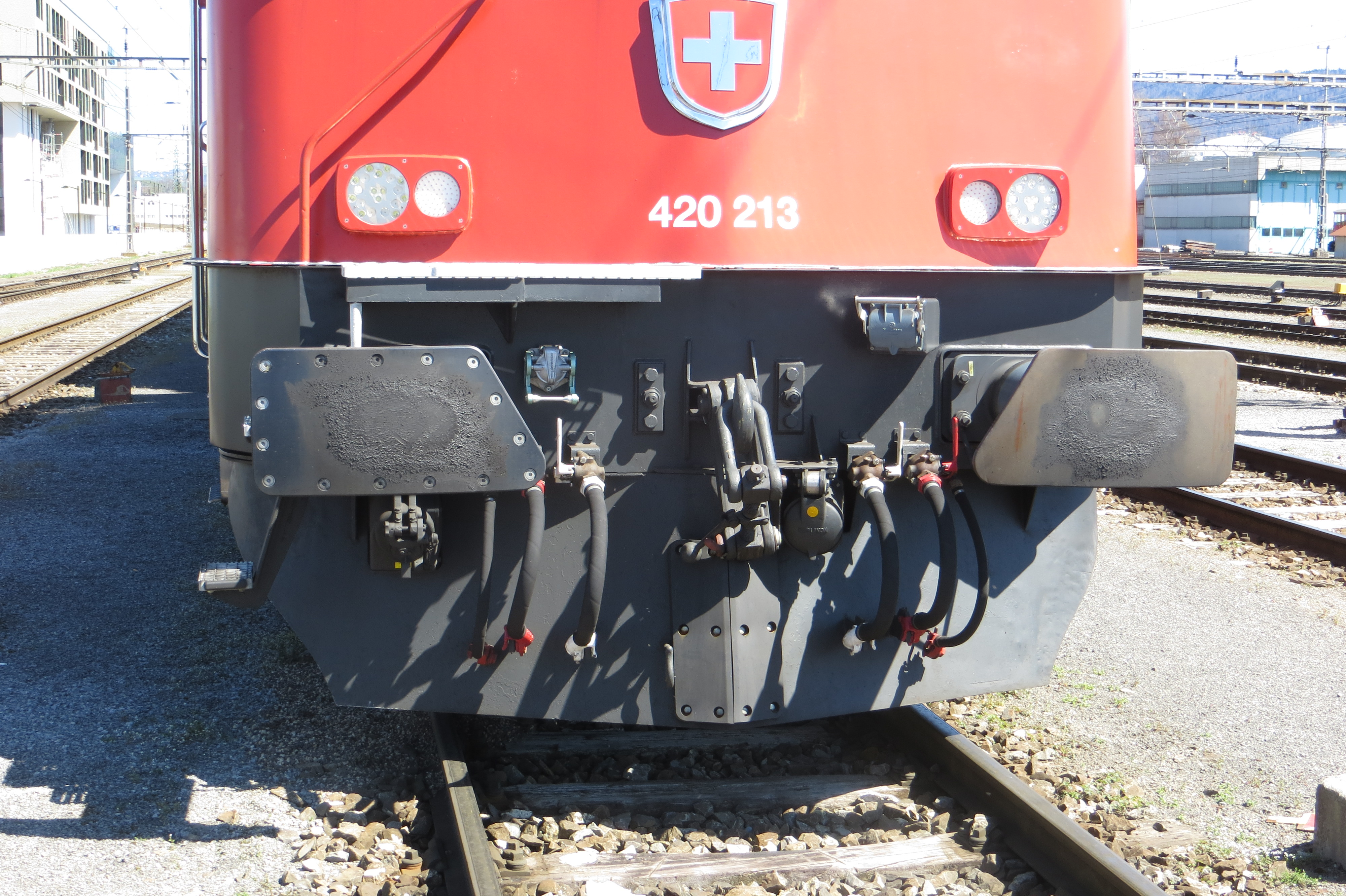 Rotkreuz train stationSBB Re 420 213 LION (Re 4/4 II 11213)LION stands for: facelift, integration, optimization, reconfiguration